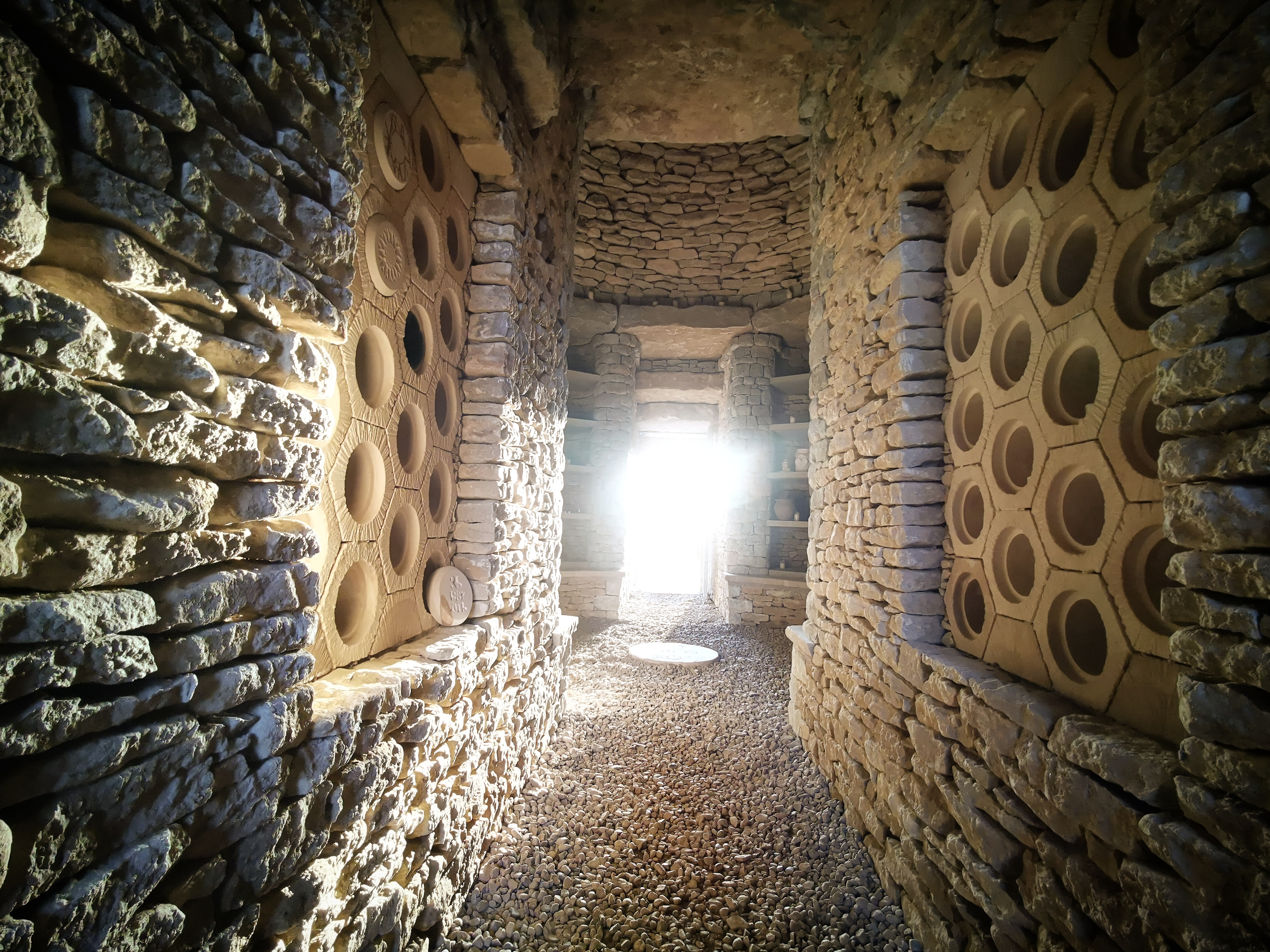 Soulton longbarrow just after dawn on summer solstice